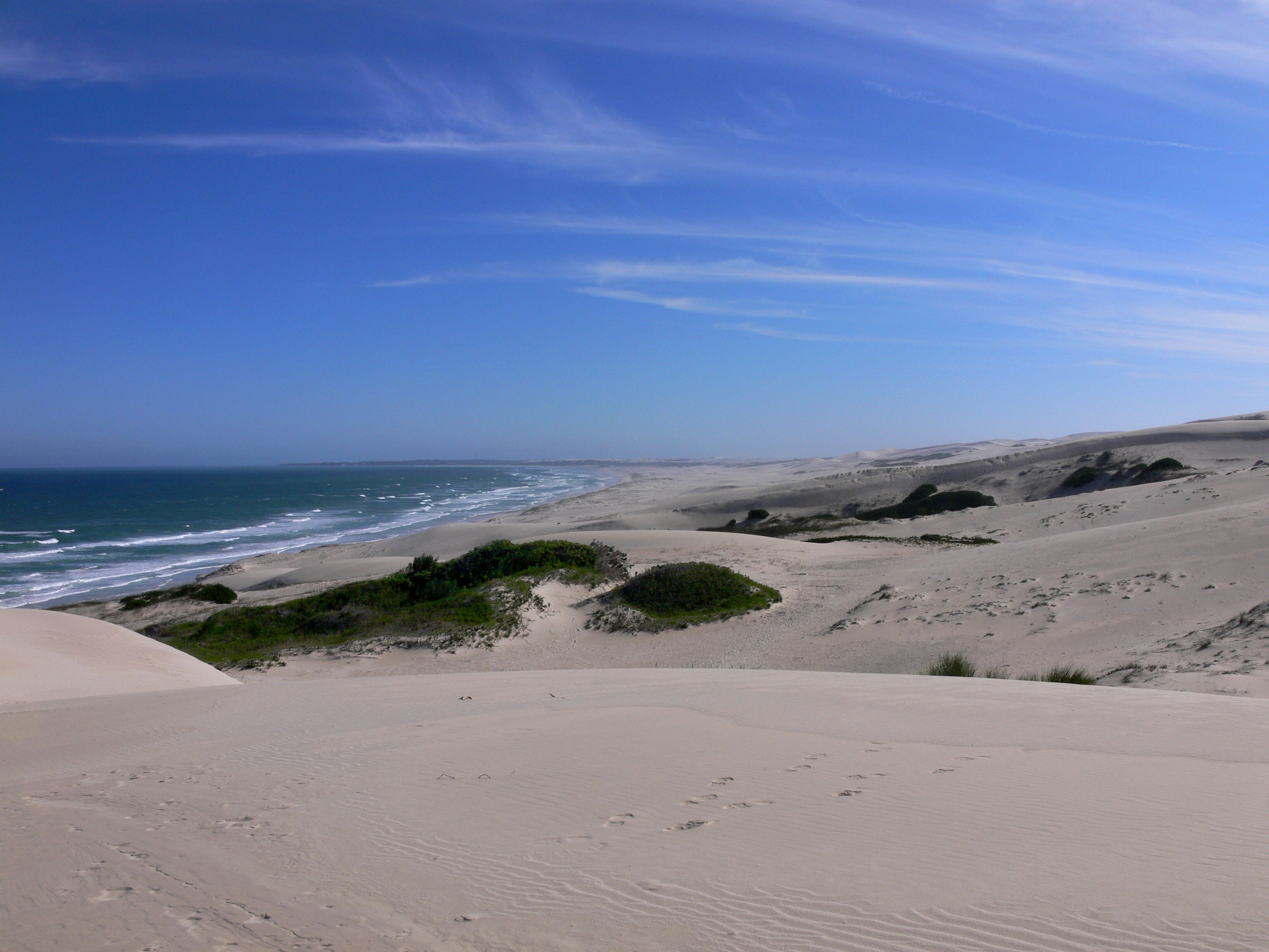 Dunes, de Hoop Nature Reserve, Western Cape, Southafrica